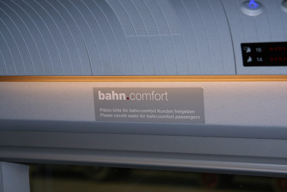 A bahn.comfort (frequent traveller programme) sticker on the first class of an ICE 3 train.